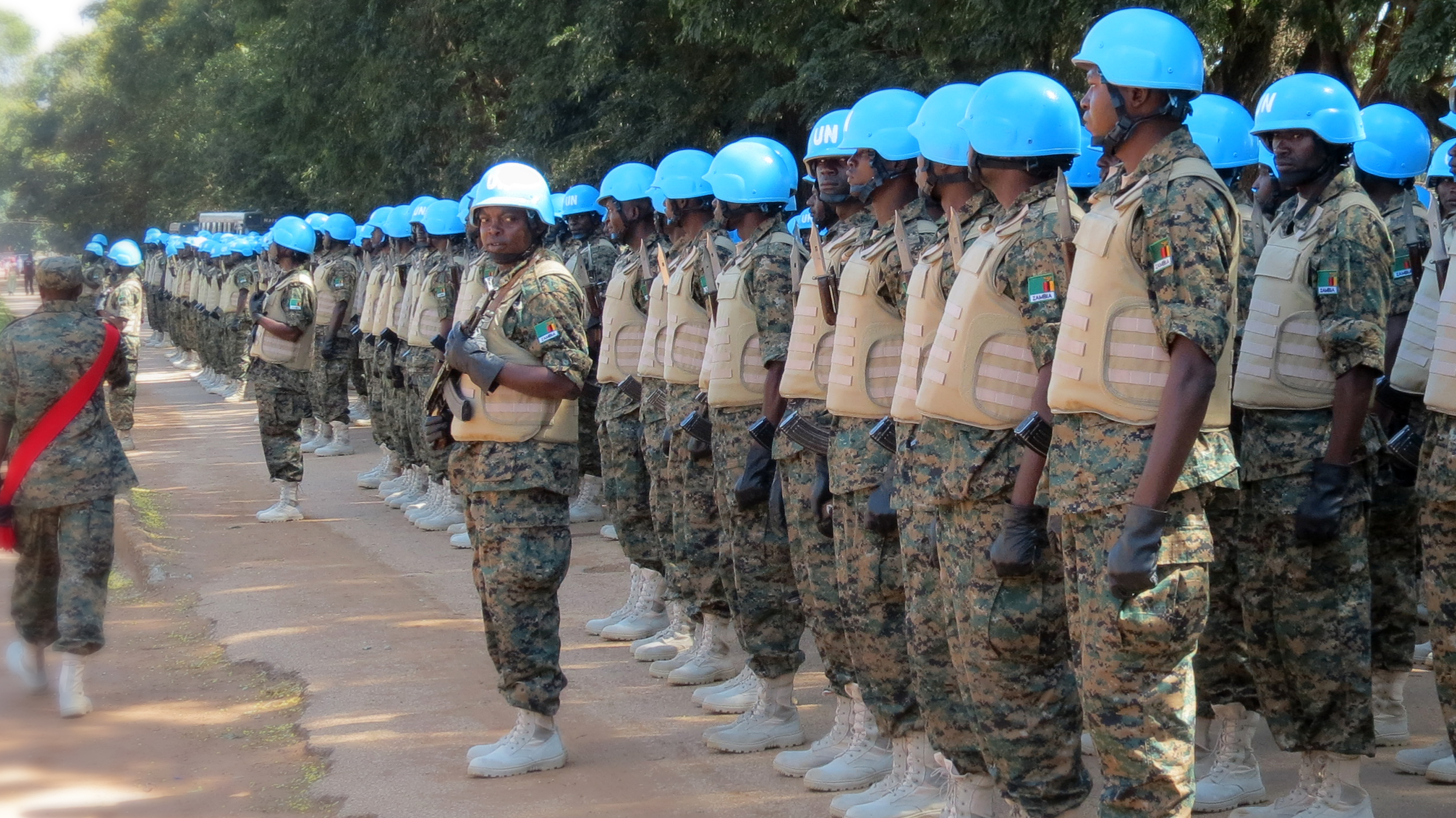 These soldiers were trying out their new UN peacekeeping uniforms prior to deploying to the Central African Republic as part of the UN MINUSCA mission. This is an image of Cultural Fashion or Adornment from Zambia